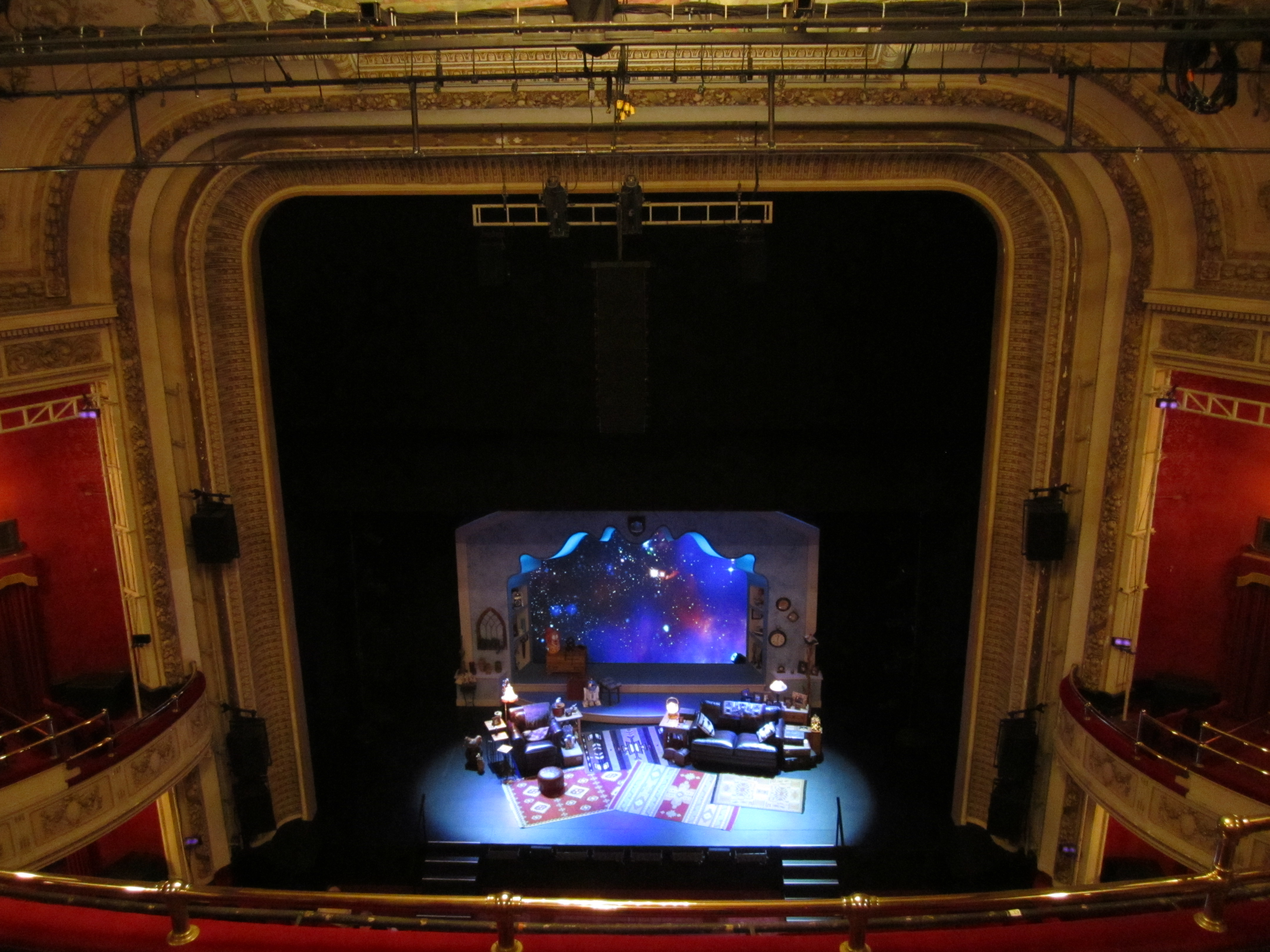 The stage of the Royal Alexandra Theatre in Toronto, Ontario, Canada. The stage is set up for the Carrie Fisher's one-woman show, Wishful Drinking.